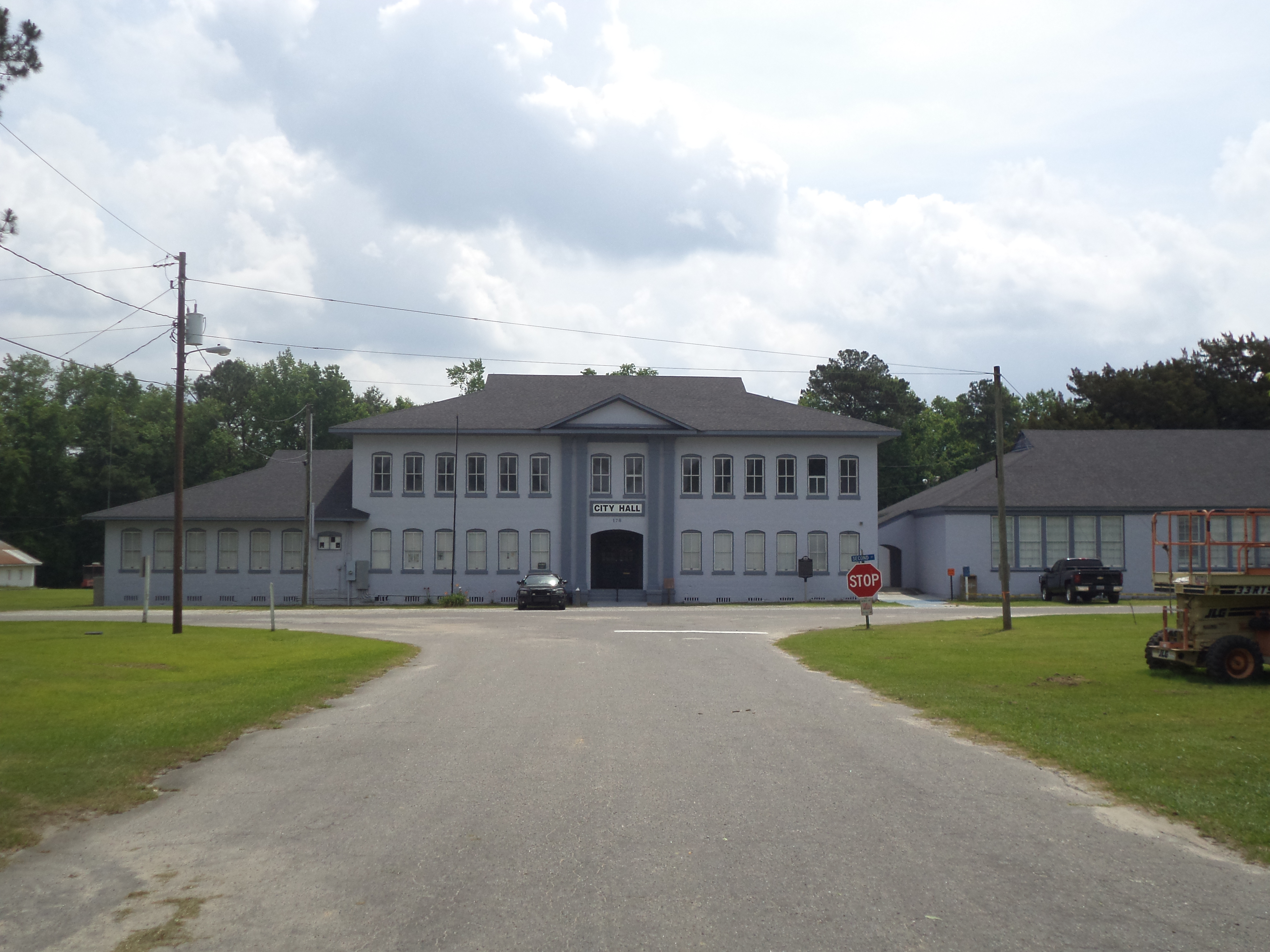 Morven City Hall, 178 2nd St, Morven, Brooks County, Georgia